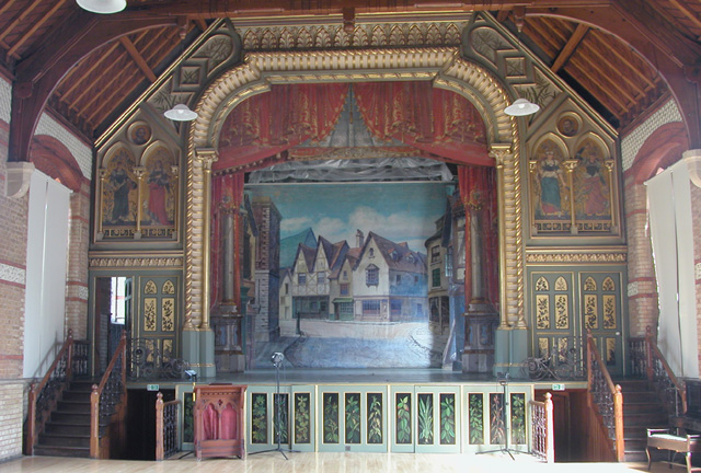 Normansfield Theatre Stage. The theatre is on the site of Normansfield Hospital which was a self sufficient Victorian hospital complex run by Dr John Langdon Down. Access to the theatre was with the kind permission of The Langdon Down Centre Trust in whose care the theatre building, together with the original scenery, has been restored to its former glory.